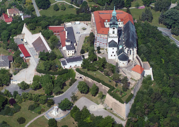 Nitra castle, Slovakia, aerial photography